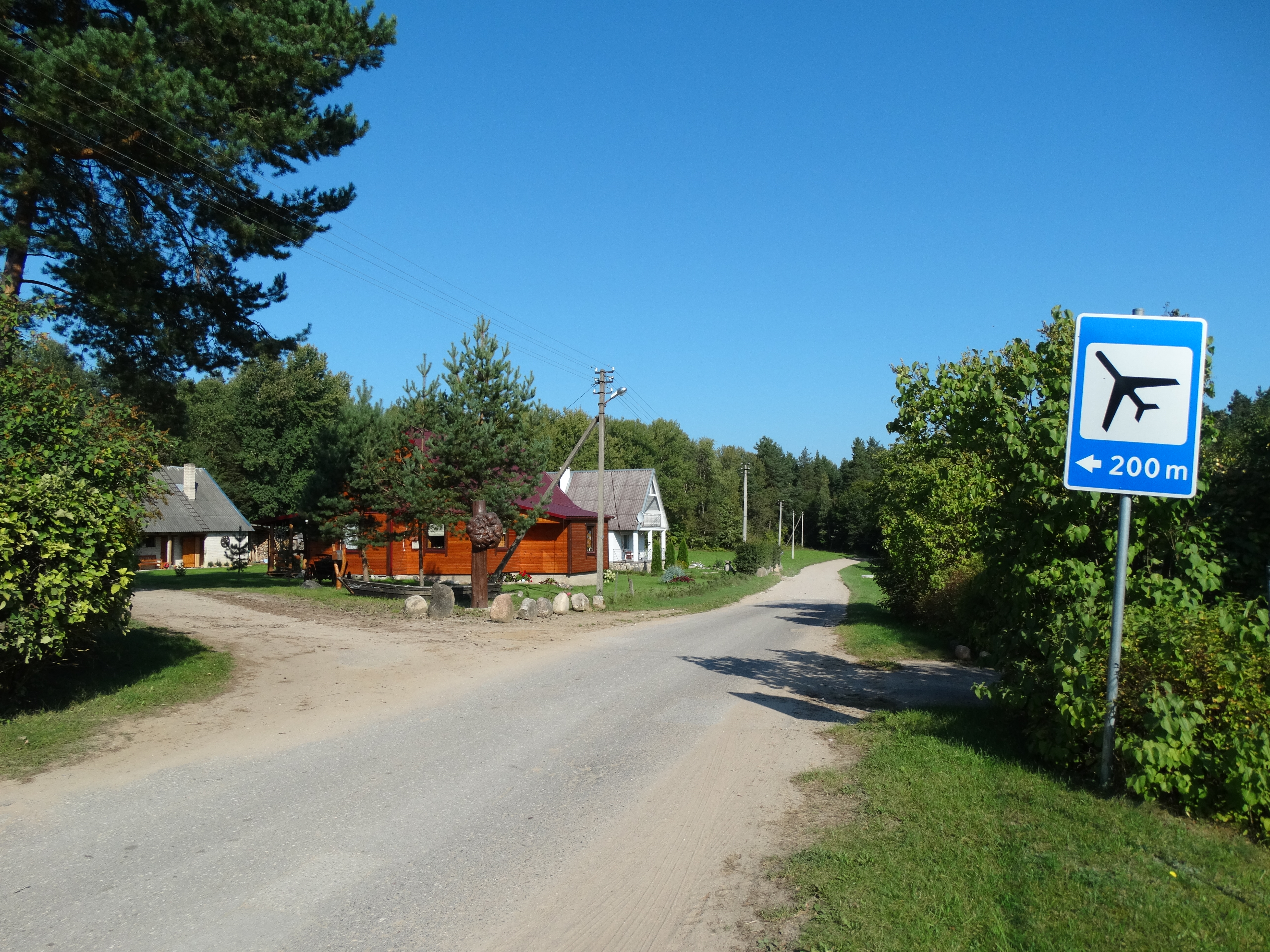 Dimitriškės, Zarasai District, Lithuania